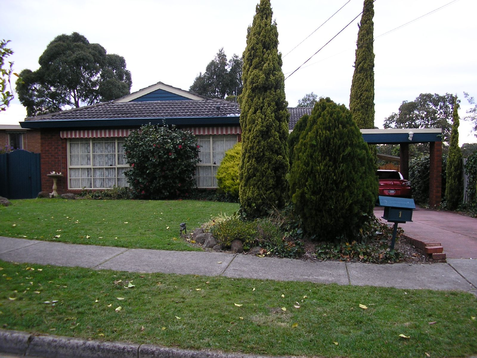 The house where the Williams family lives in the Australian soap opera Neighbours.